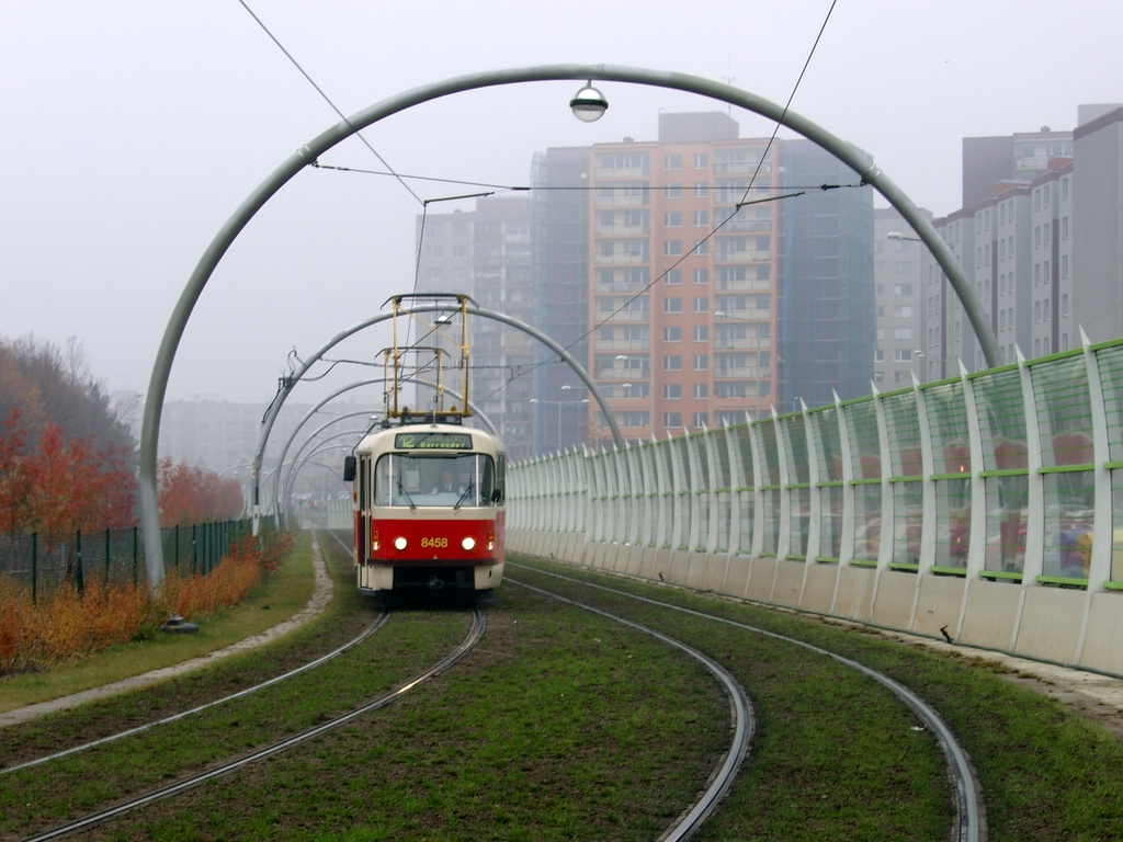 Tram in Praha, Barrandov Housing Estate.